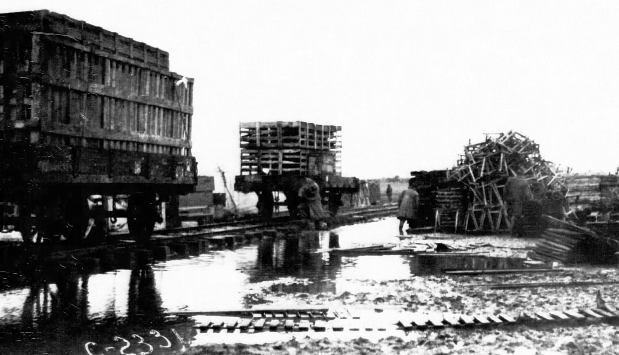 Colombey-les-Belles Aerodrome - 1st Air Depot Supply Transport Source: Series 1, Paris Headquarters and Supply Section, Volume 30 History of the 1st Air Depot at Colombey-led-Belles, Gorrell's History of the American Expeditionary Forces Air Service, 1917–1919, National Archives, Washington, D.C.